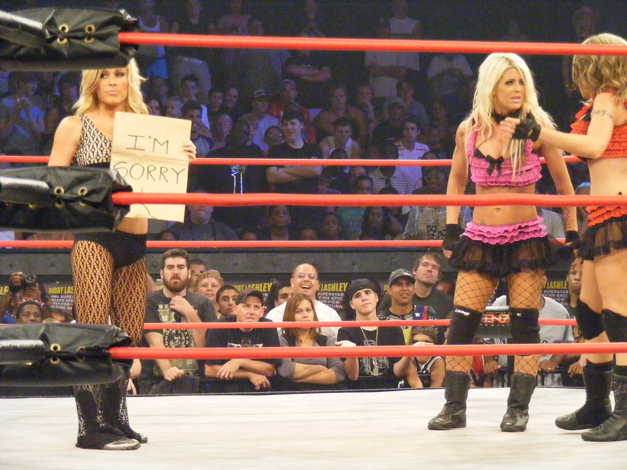 Madison Rayne apologizing to The Beautiful People, after helping them advance in the tournament.